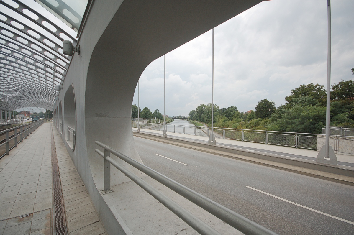 Hanover 2010